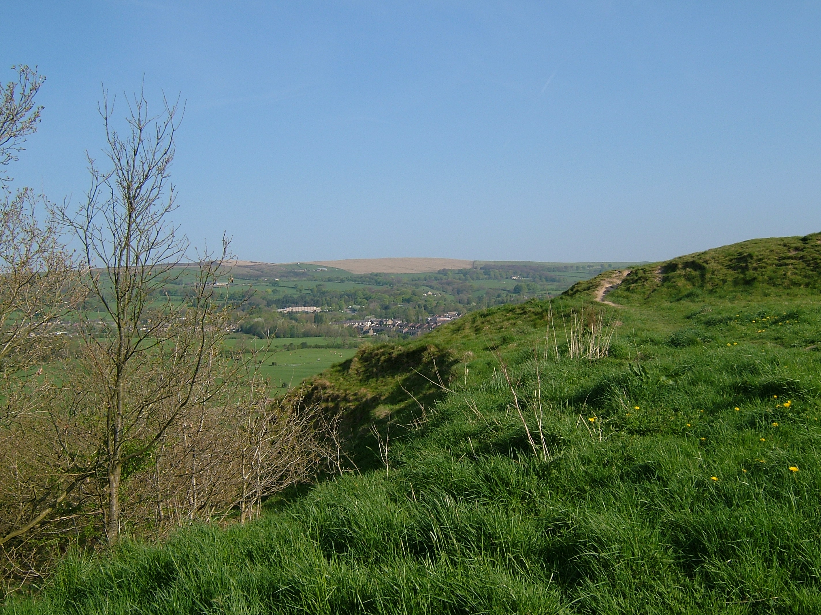 Gamesley is a local government district in the High Peak of Derbyshire, it is known for the Roman fort of Ardotalia, and the Manchester overspill housing estate built where the vicus used to be. Ardotalia was known in Victorian times as Melandra Castle, which is preserved in current street names. Ardotalia Steep Western ramparts